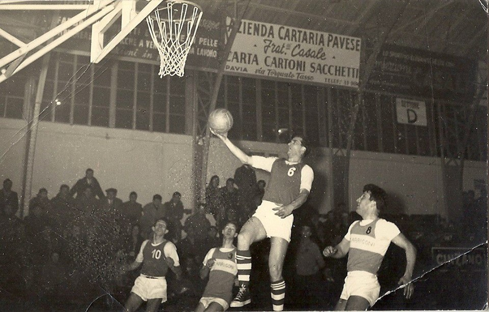 Pallacanestro Pavia Arrigoni Trieste 1955